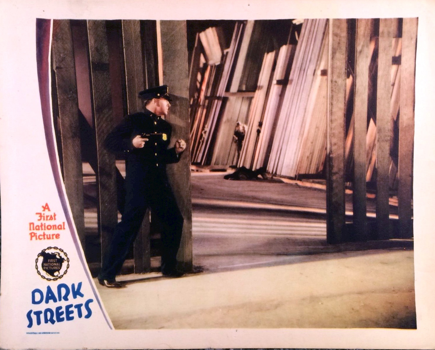 Lobby card for the American crime film Dark Streets (1929). There are no copyright marks on the card. At bottom left is Country of origin USA.